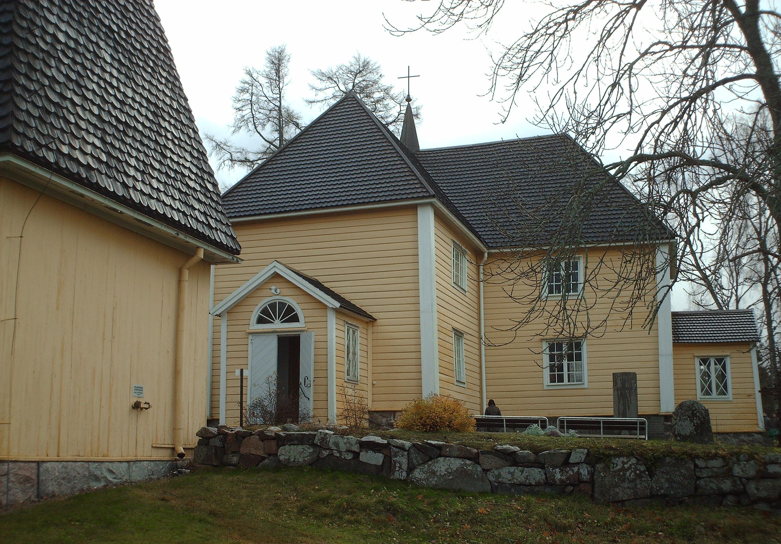 Snappertuna Church in Ekenäs (now part of Raseborg), Finland